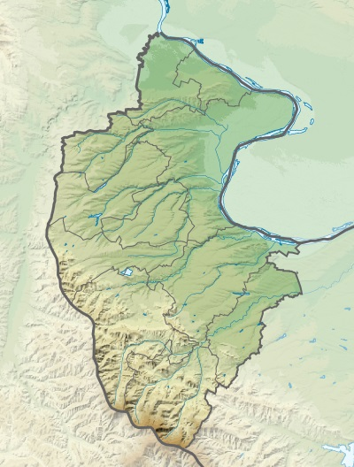 Physical Location map Vidin province, Bulgaria. Geographic limits of the map: N: 44.28° N S: 43.35° N W: 22.20° W E: 23.20° W